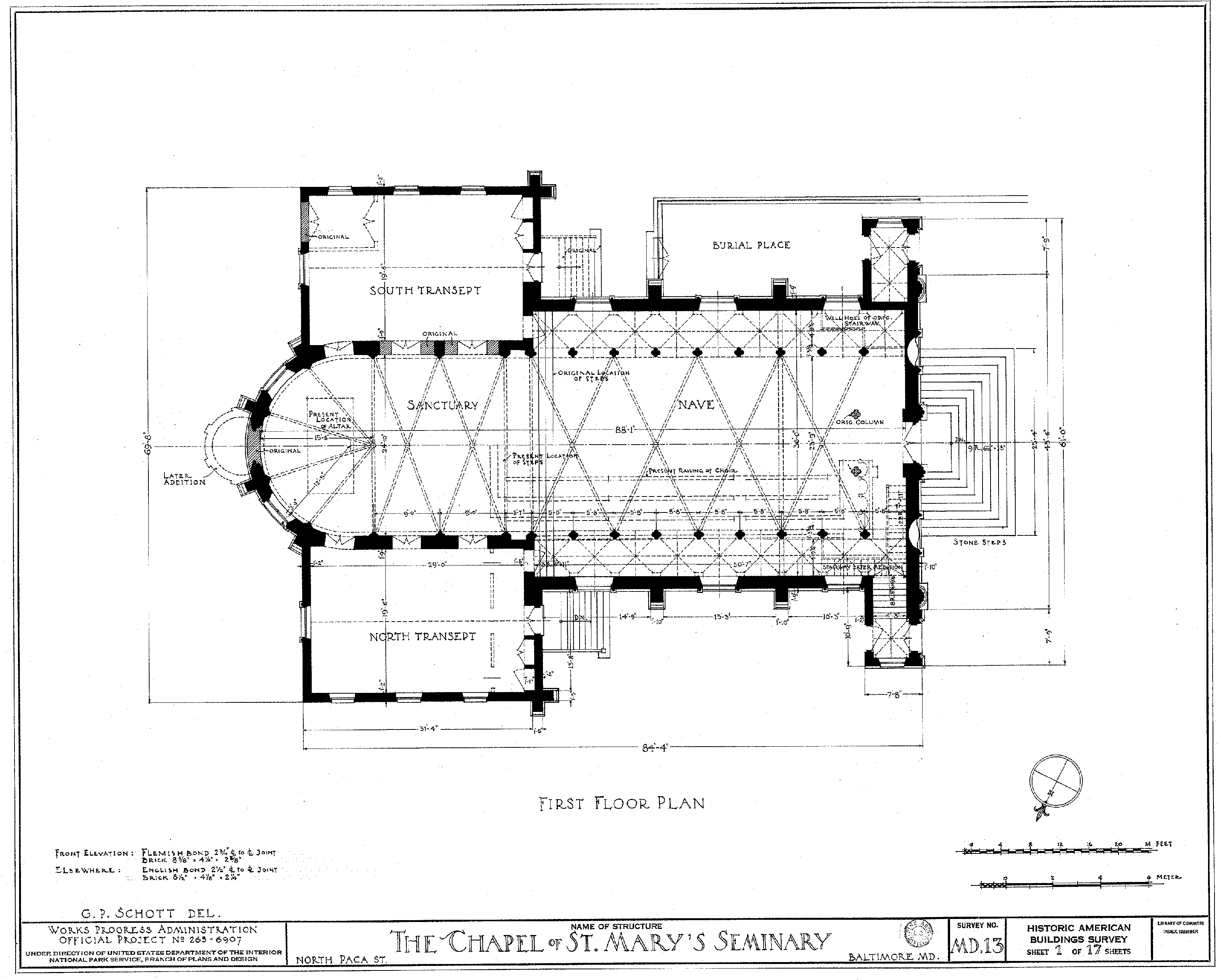 Works Progress Administration/HABS—Historic American Buildings Survey plan of St. Mary's Seminary Chapel — Baltimore, Maryland. Maximilian Godefroy, architect.